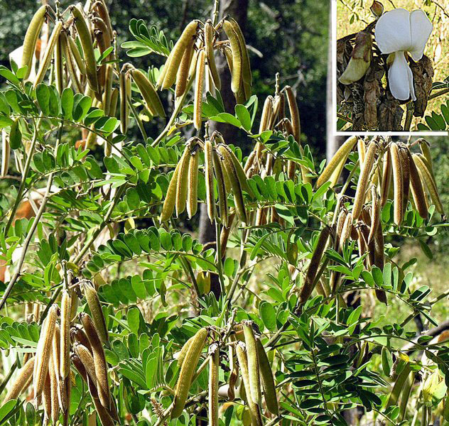 Native to tropical Africa, but now a pantropical crop. Used to fix nitrogen and to deter ticks, mites, fleas etc., but it can kill fish if planted near water. Photo from Liparamba area of Tanzania.